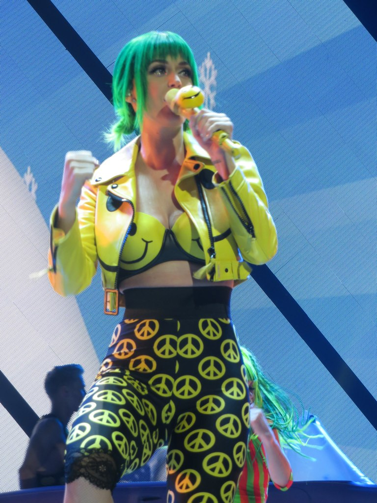 Katy Perry performing "This Is How We Do", The Prismatic World Tour, Glasgow SSE Hydro 17 May 2014